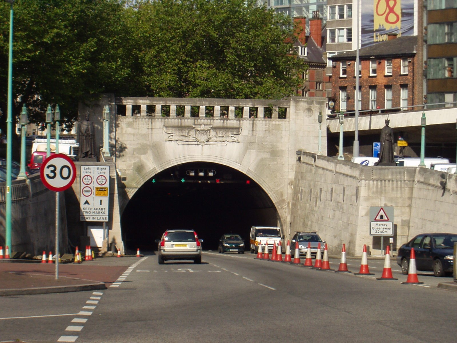 The Liverpool portal of the Queensway Tunnel (Birkenhead Tunnel), between Liverpool and Birkenhead, England. Architect Herbert James Rowse, 1932.